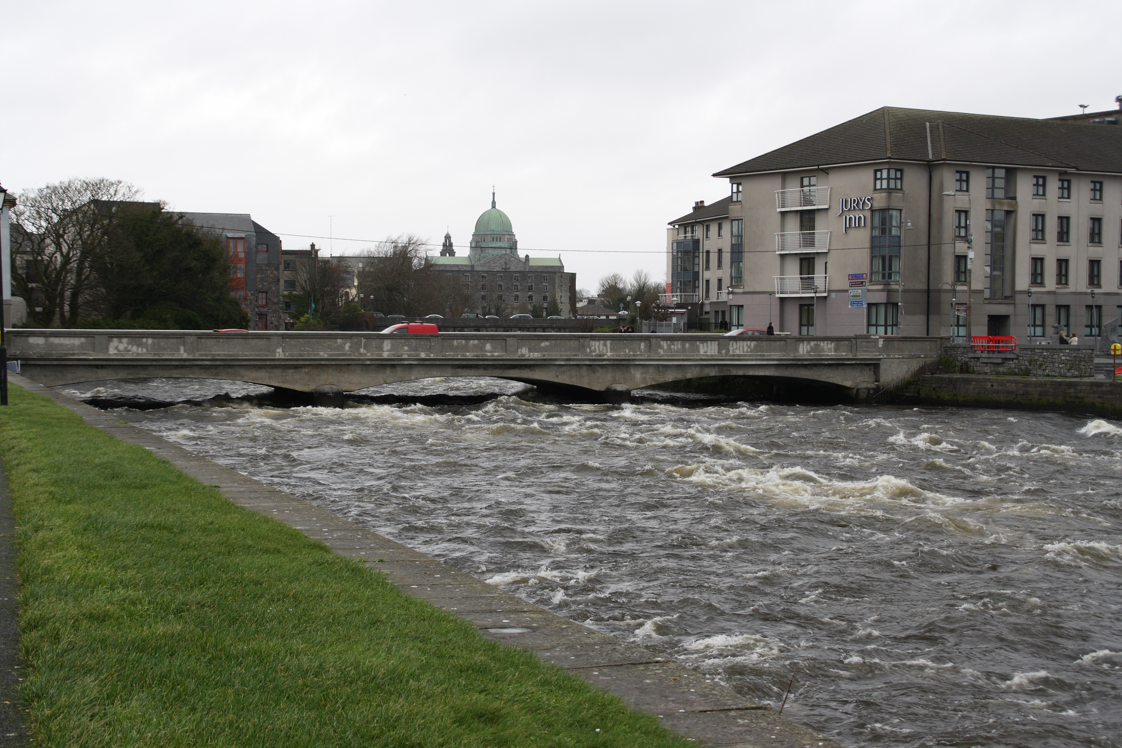 Galway Corrib River and Dome in background